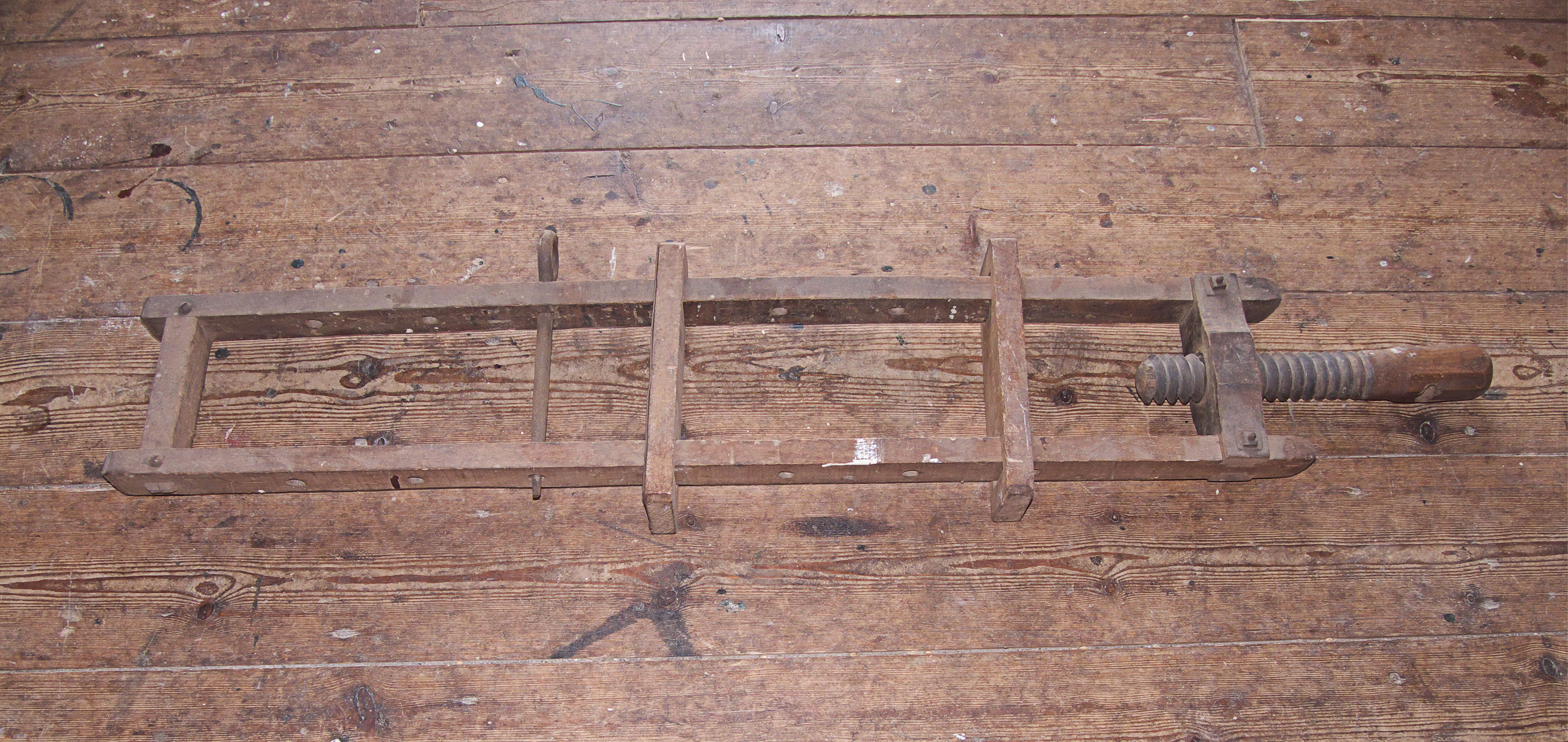 Wooden screw clamp of old days